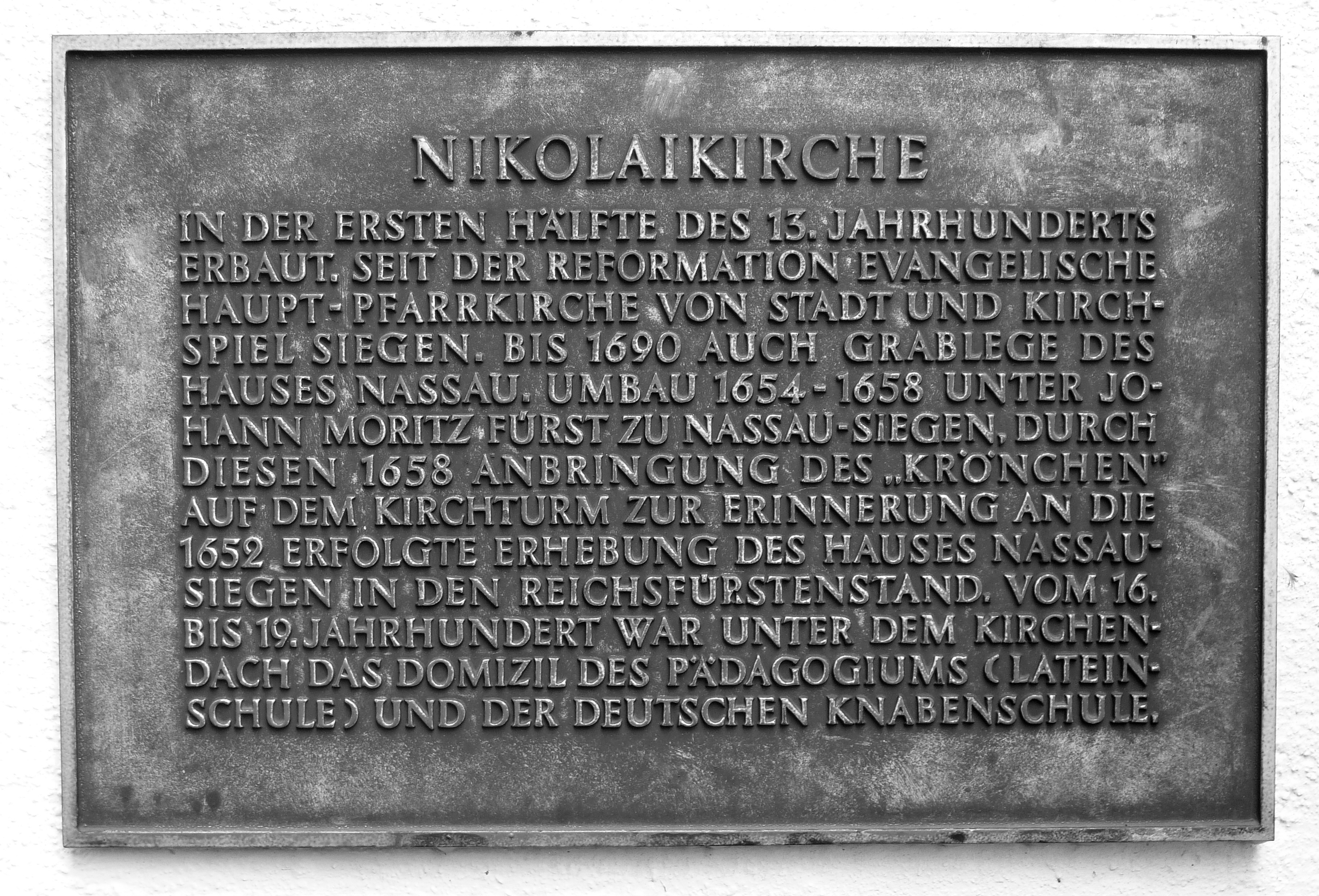 City of Siegen/Westphalia (Germany): Plaque on the façade of protestant St. Nicolas’ church (Nikolaikirche) in the center of town